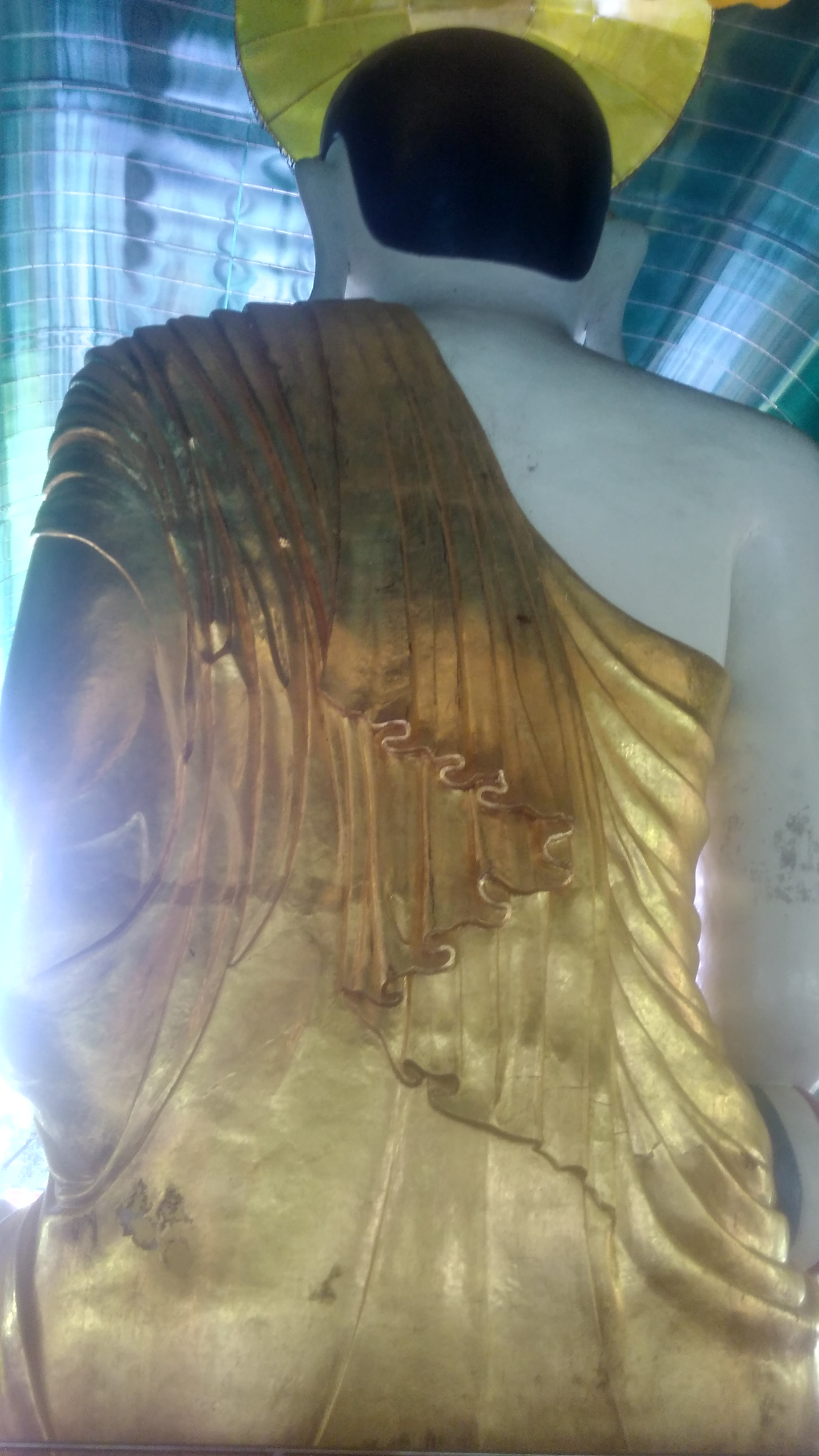 Kawa Ngar Htap Kyee (Back) မြန်မာဘာသာ: ငါးထပ်ကြီးဘုရား၏ ကျောဘက်မြင်ကွင်း။ ပဲခူးတိုင်းဒေသကြီး၊ ကဝမြို့တွင် တည်ရှိသည်။